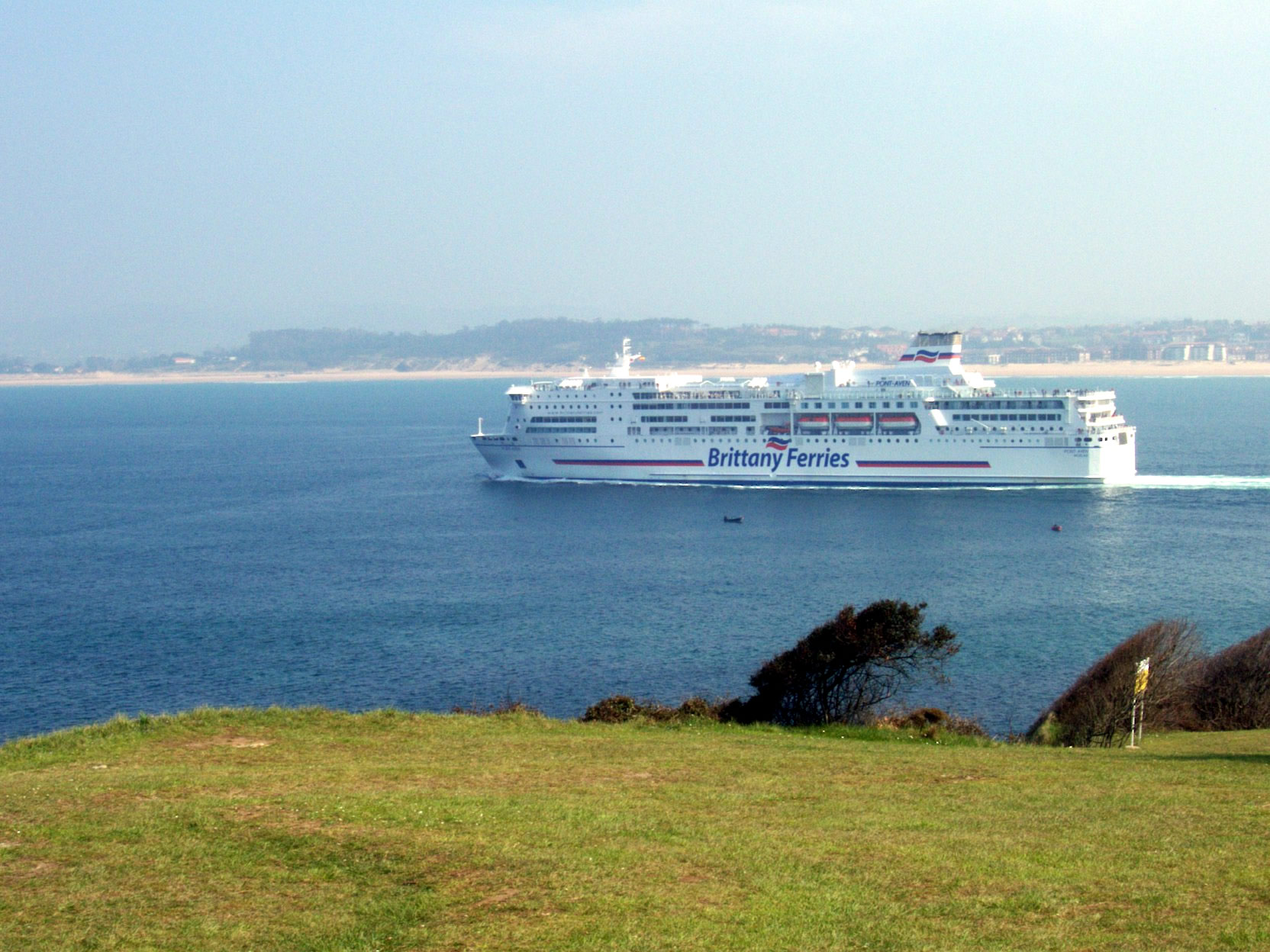 Brittany Ferries M/V Pont-Aven off the coast of Santander IMO Number: 9268708 MMSI Number: 228183600 Callsign: FNPN Length: 185 m Beam: 38 m